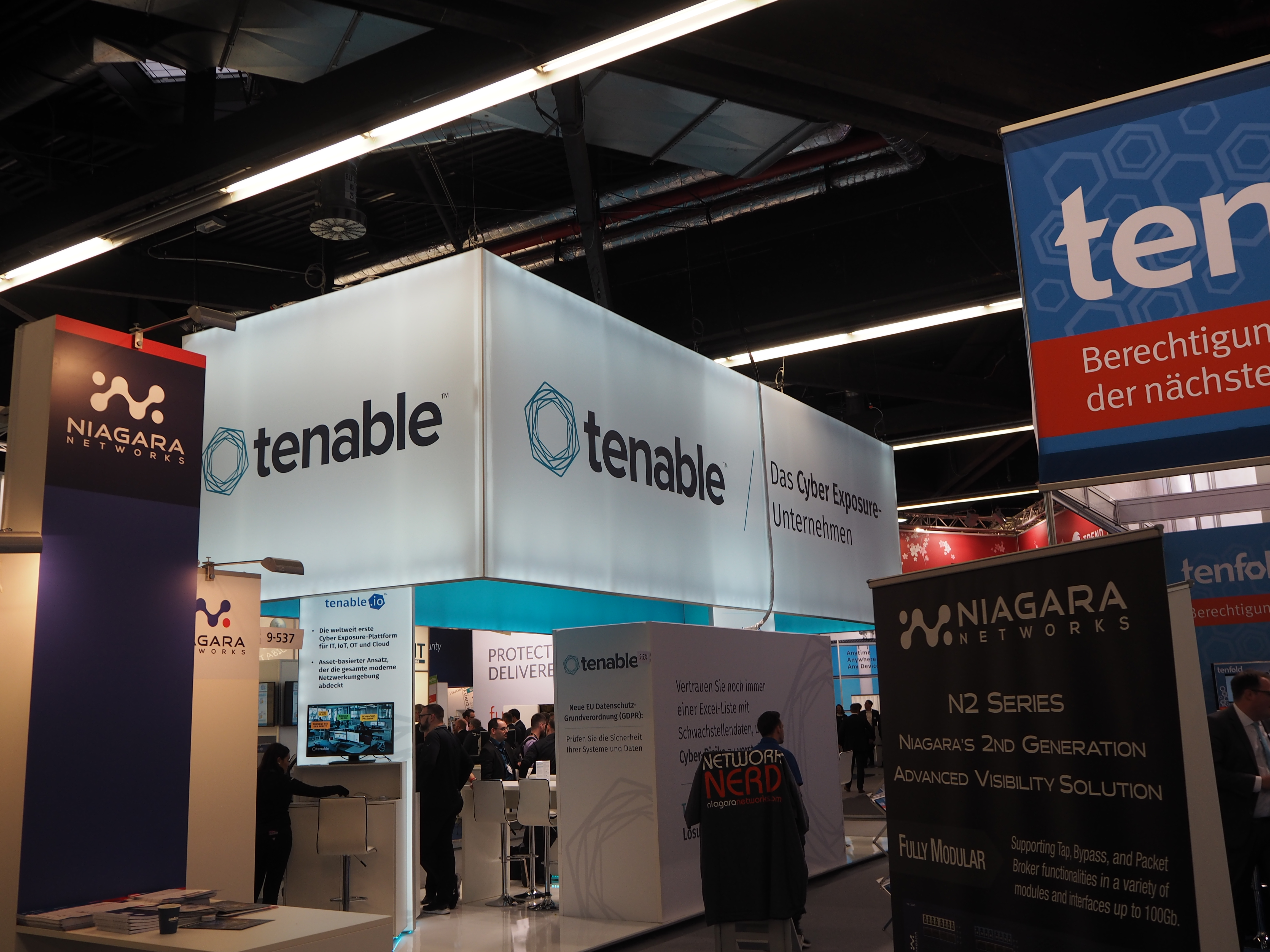 it-sa 2017 tradefair, Tenable booth